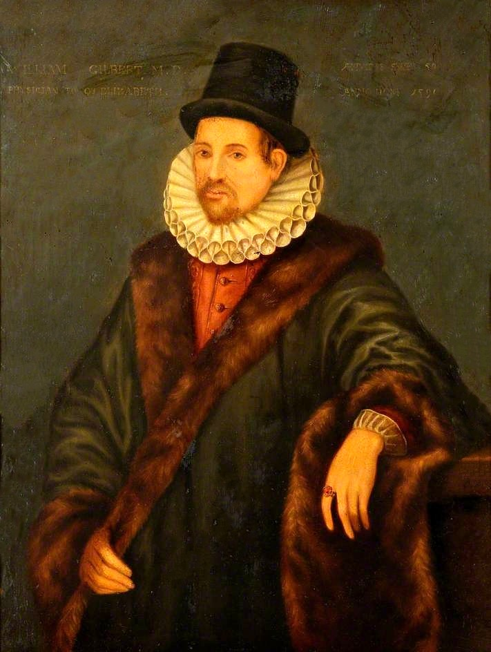 William Gilbert (1544–1603), Oil on wood, 35.5 x 27.5 cm